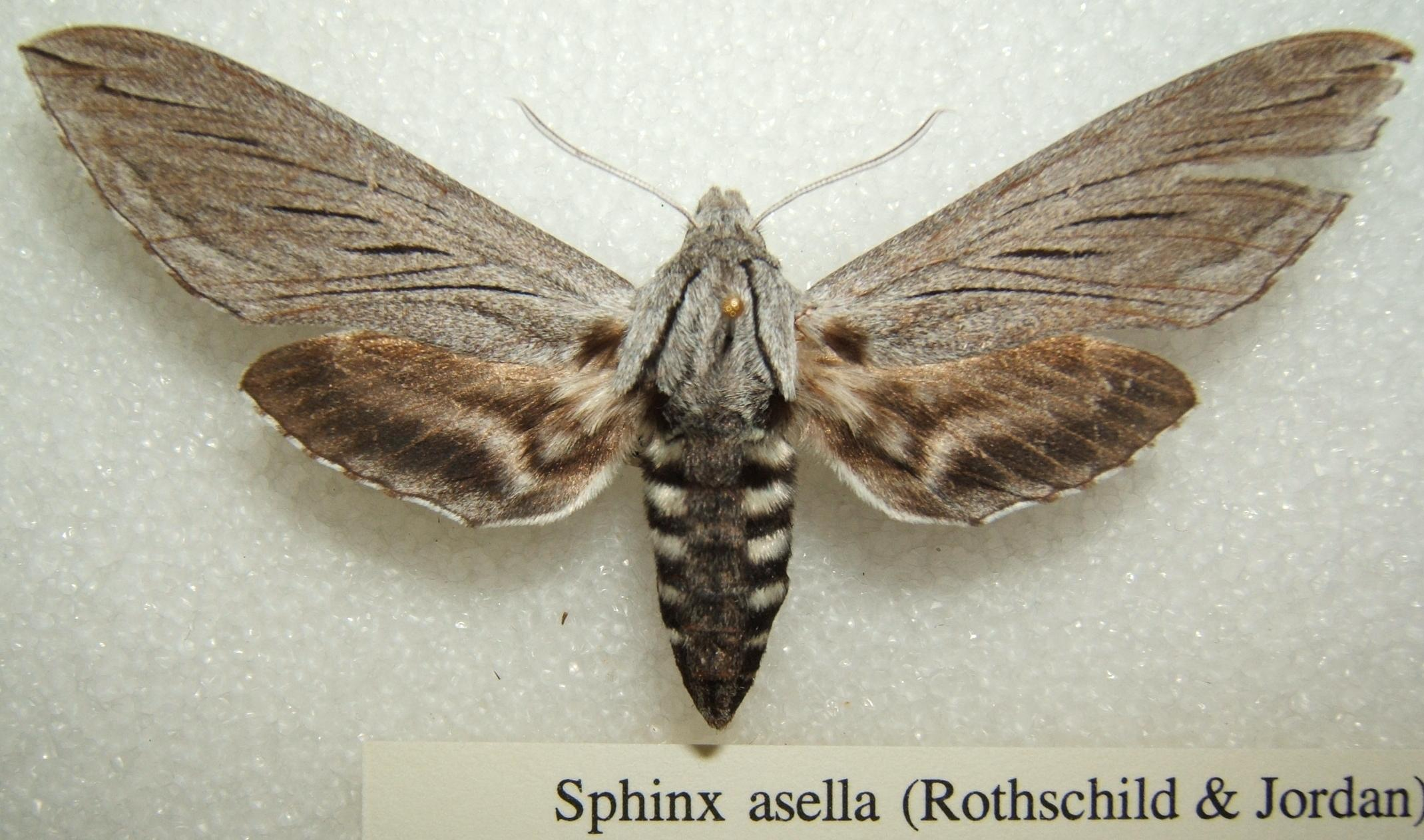 Sphinx asella adult taken by Shawn Hanrahan at the Texas A&M University Insect Collection in College Station, Texas.